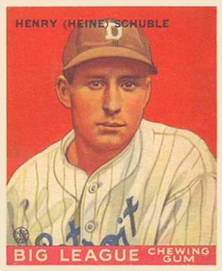 Heinie Schuble 1933 Goudey Baseball Card #4 Public Domain as Goudey wasn't renewed.